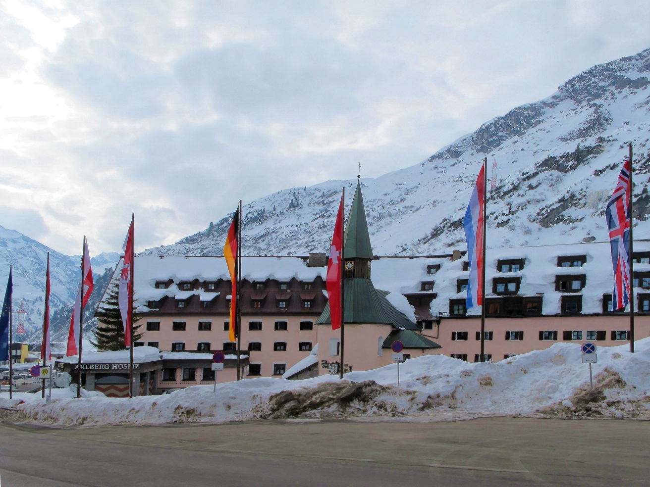 Village "St. Chrístoph", Hospice with Chapel